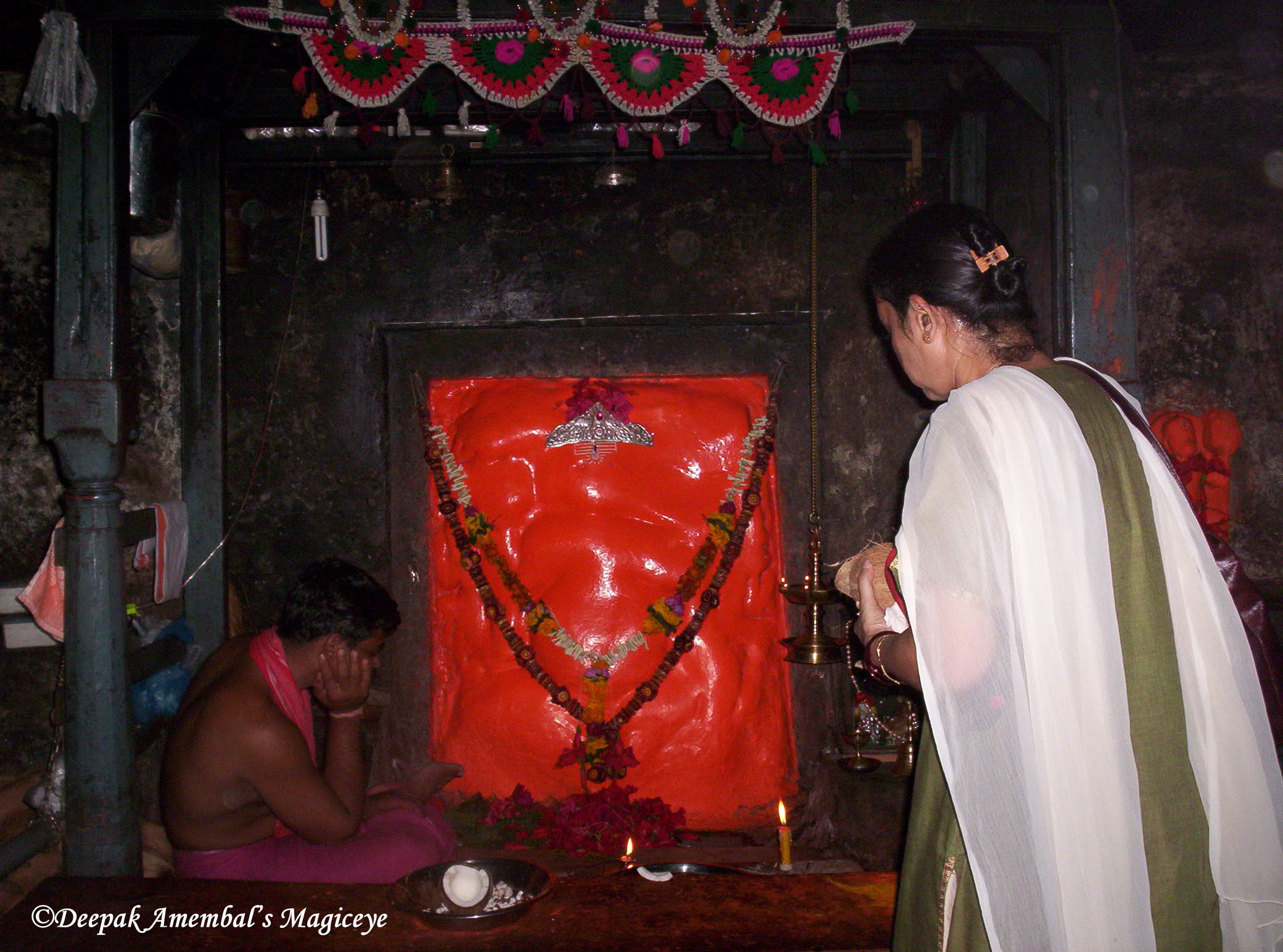 Lenyadri Ganesha is one of the 8 Ganeshas that form the Ashtavinayak in Maharashtra.